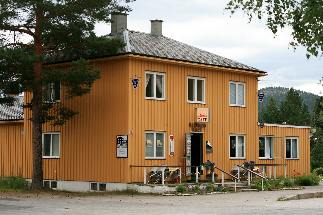 Glopheim kafé, Atna, Stor-Elvdal, Norway.